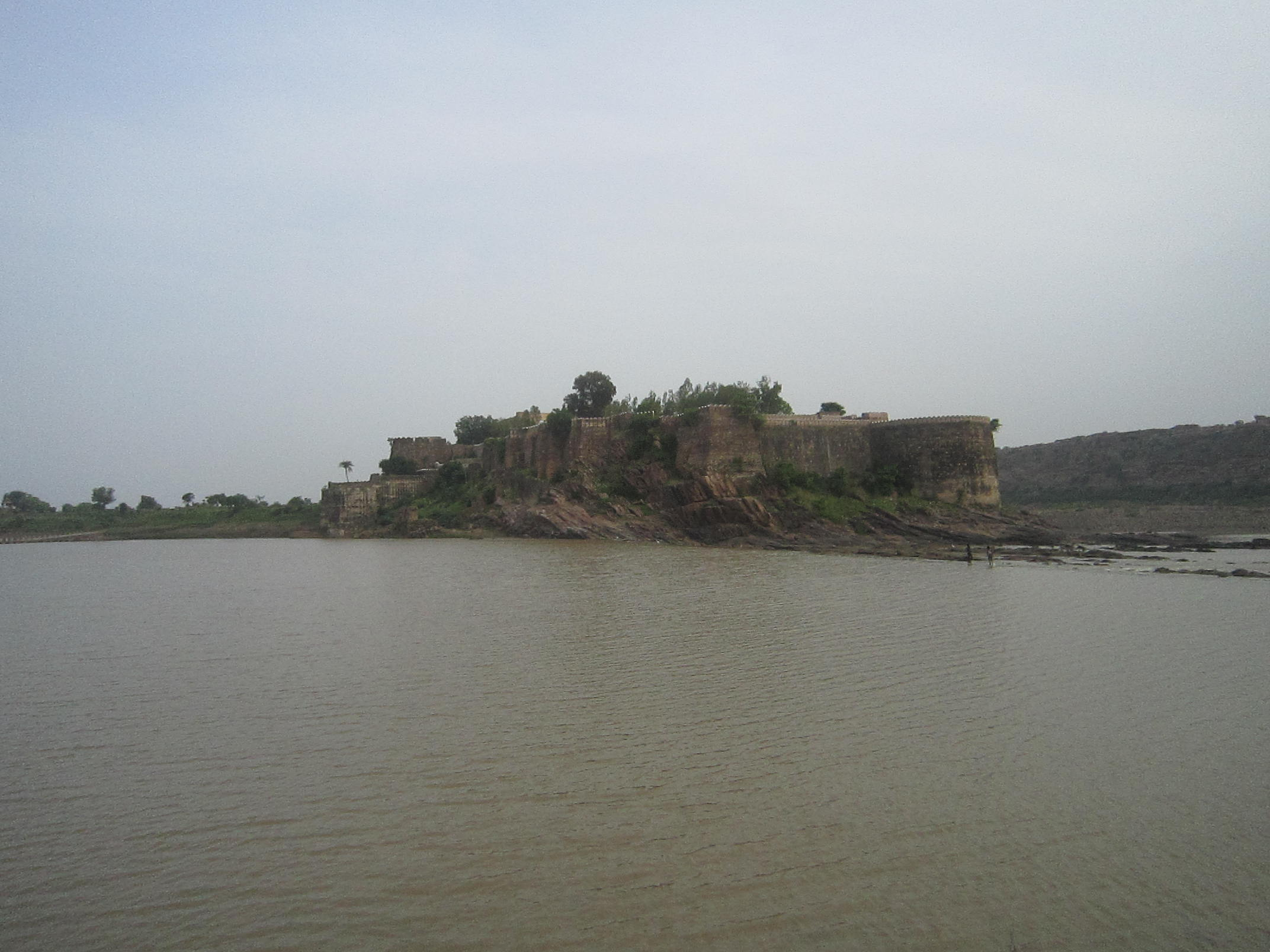 gagron fort view from dried river water of kalisindh